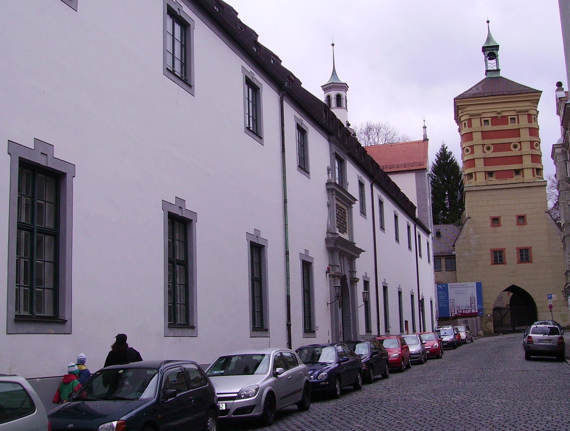 Die Westfassade des Heilig-Geist-Spitals in Augsburg mit dem Eingang zur Augsburger Puppenkiste. This is the photograph of an architectural monument. It is part of the list of cultural monuments of Bayern, no. D-7-61-000-964